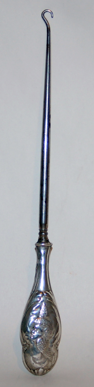 early 20th century steel button hook with an art nouveau cherub design sterling silver handle.